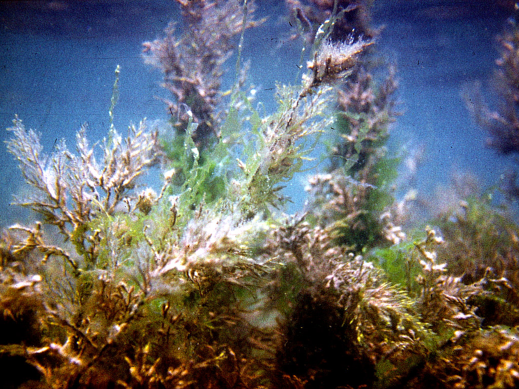 Cystoseira barbata algaebase